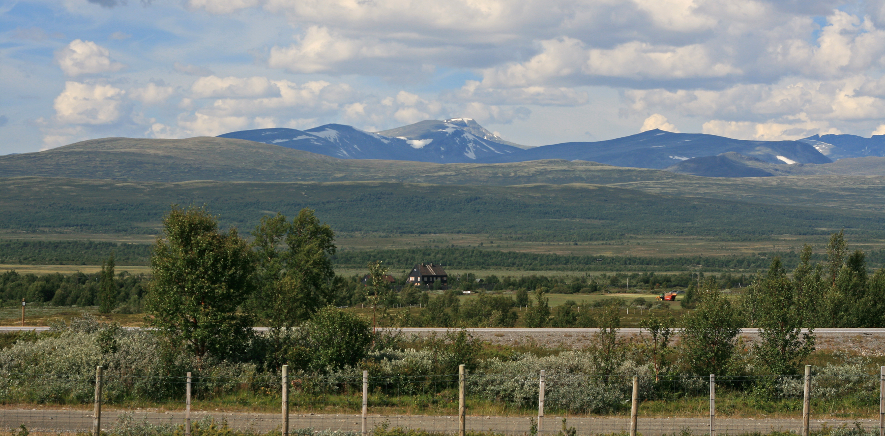 Dovrefjell plateau, Norway. Foreground: E6 and Fokstua railway station. Background: Snøhetta mountain.